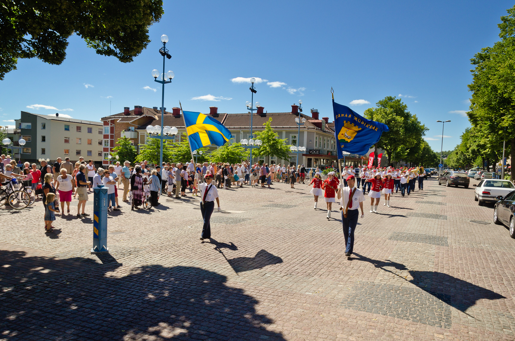 Tranås marching band on Klockareplan in Tranås, Sweden